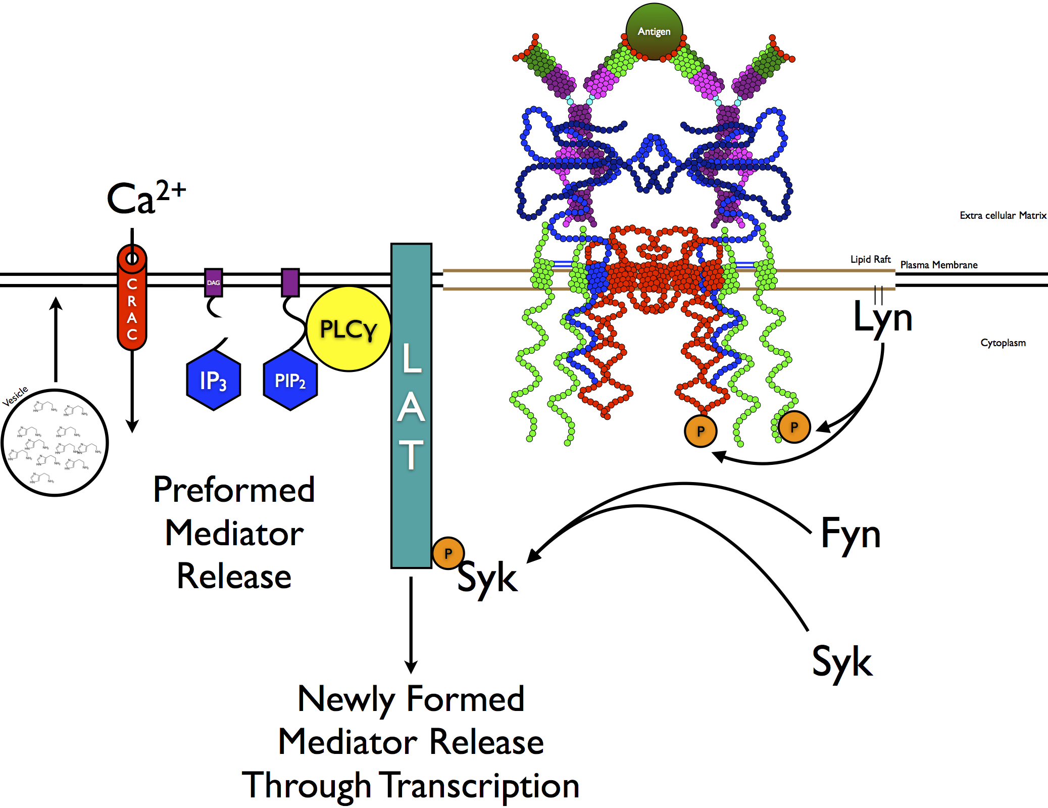 This diagram shows the starting point of the signal cascade, on mast and basil cells, when IgE binds to its FcεRI receptor followed by a challenge with an allergen.